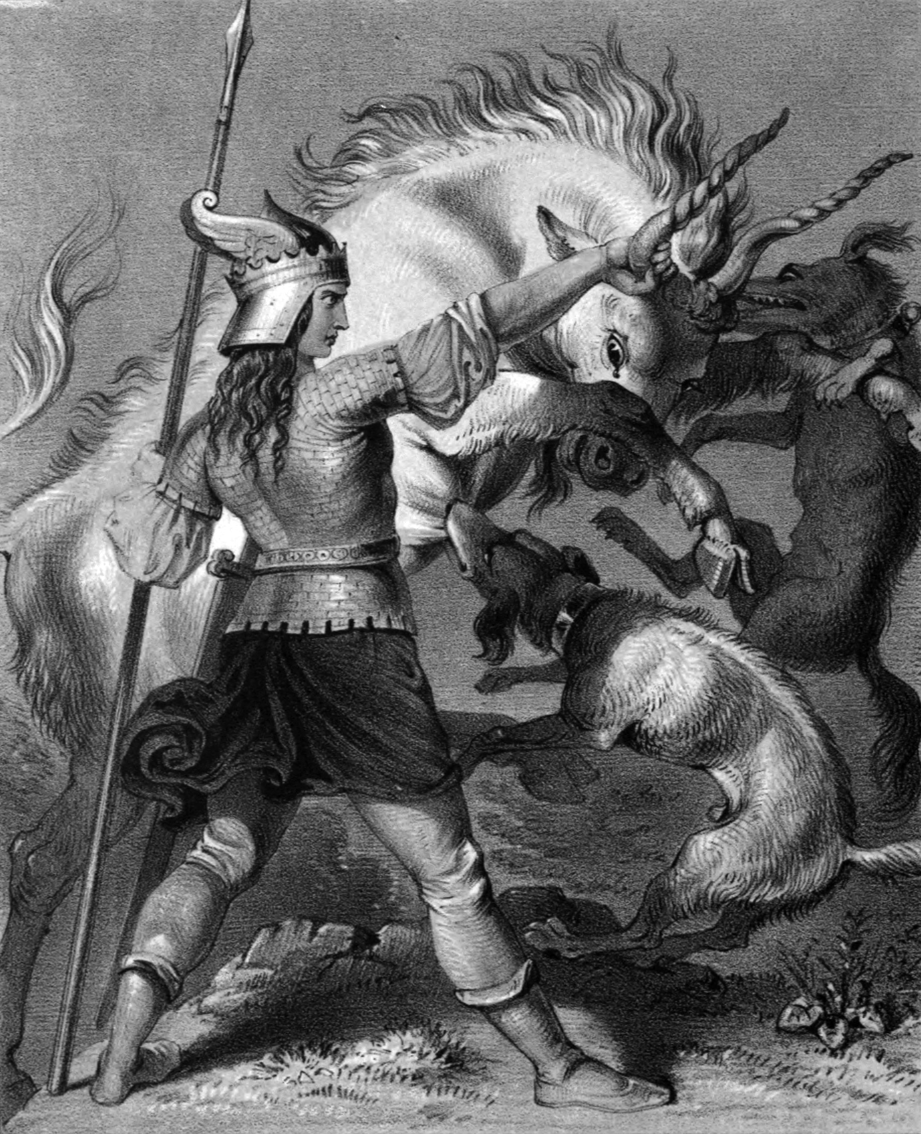 Siegfried catches an Uroch.